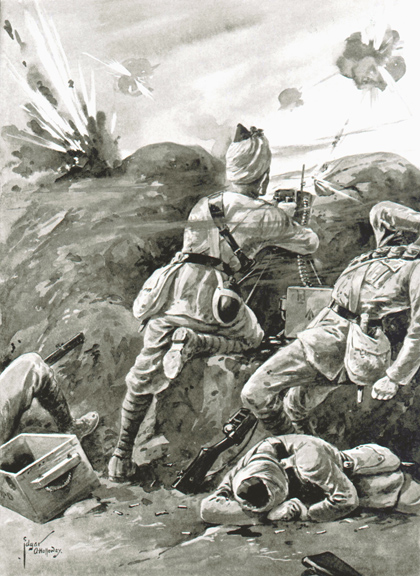 Sepoy Khudadad Khan, VC, Hollebeke Sector, First Battle of Ypres, 30 October 1914.